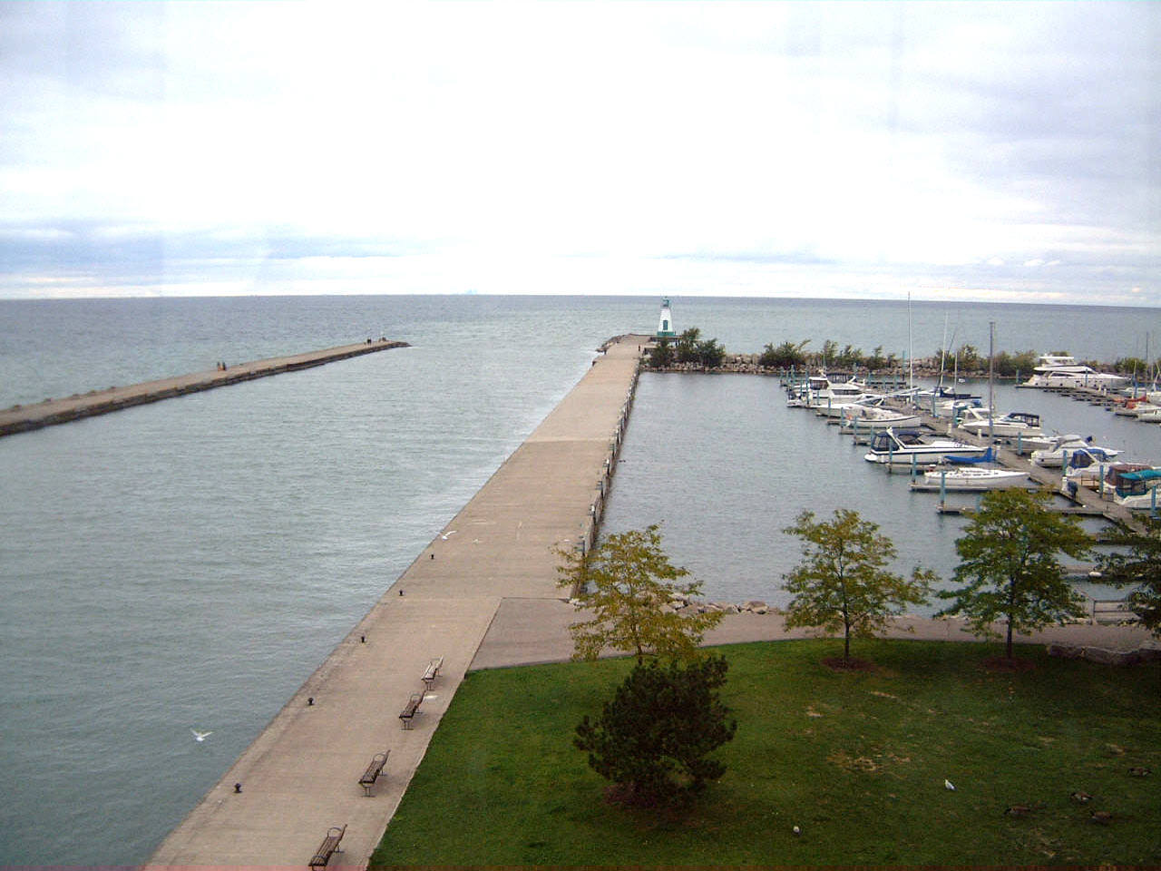 Marina and Sidewalk, as seen from Rear Range Lighthouse Port Dalhousie/St. Catharines, Ontario